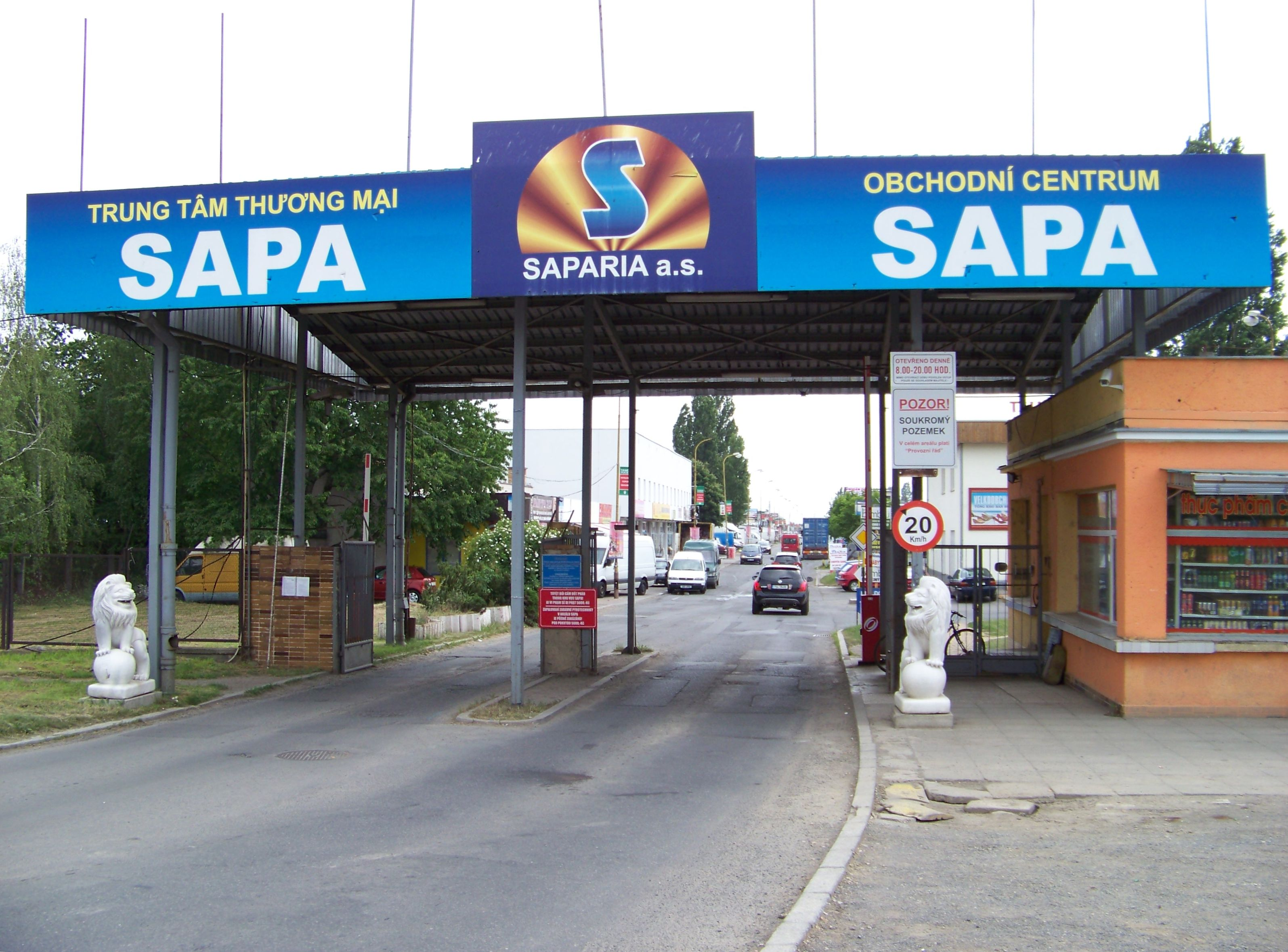 Prague-Písnice, the Czech Republic. TTTM Sapa, entry from V lužích street. - OpenStreetMap(Info)